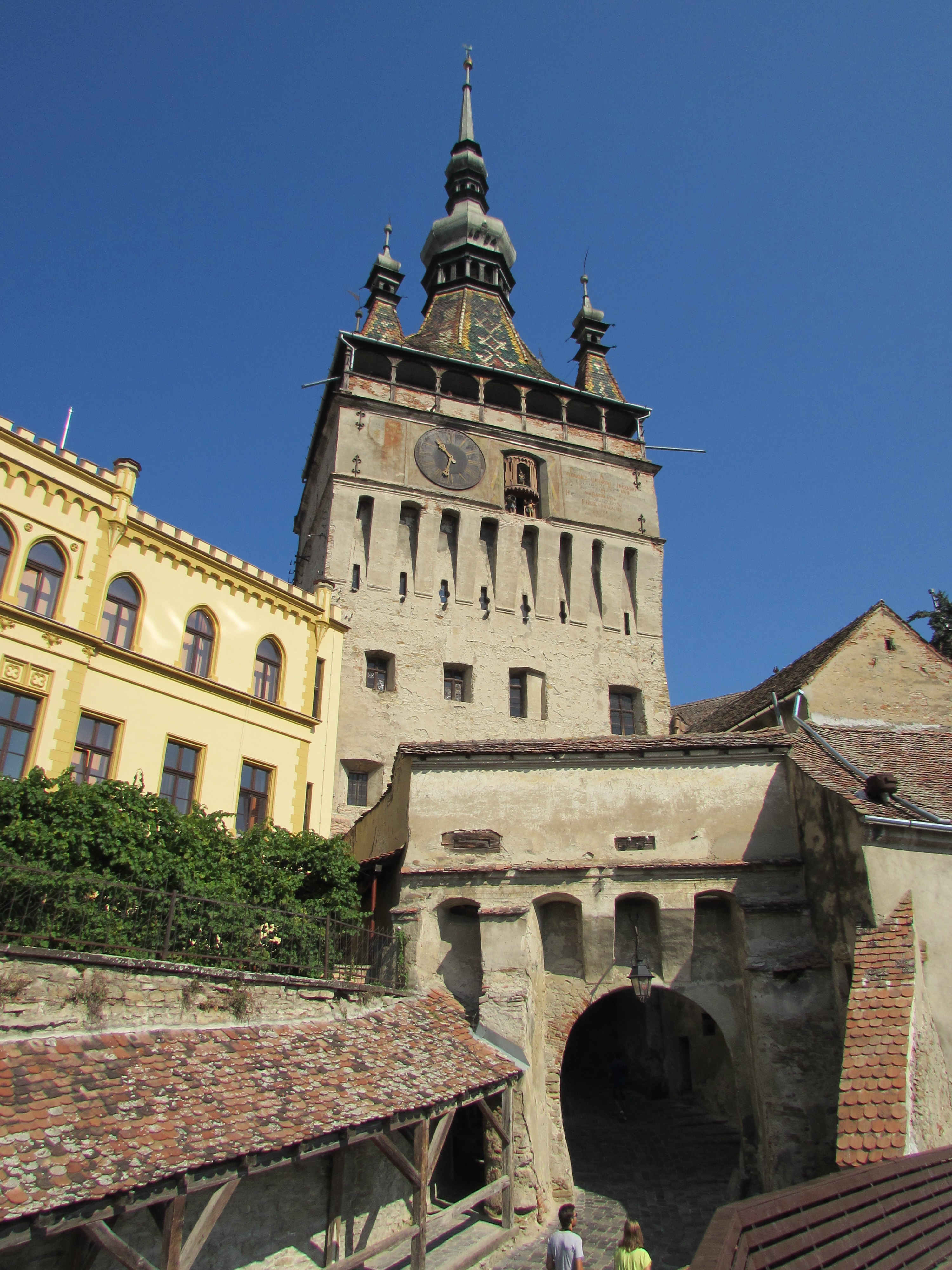 Sighișoara clock tower